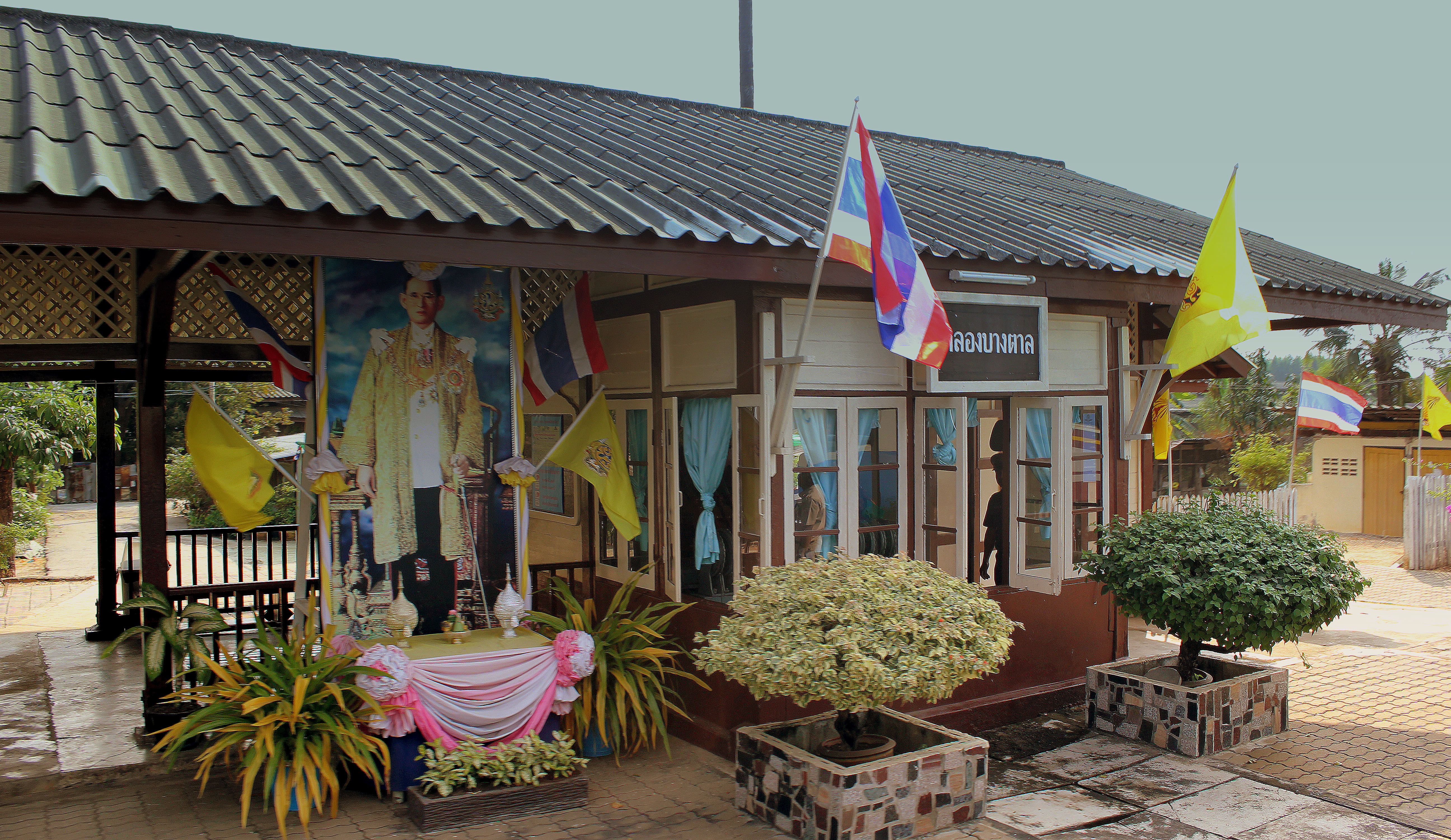 THAI RAILWAYS KRUPPS LOCO HAULED JOURNEY FROM BANGKOK THONBURI STATION TO KANNCHANABURI RIVER KWAI THAILAND JAN 2013